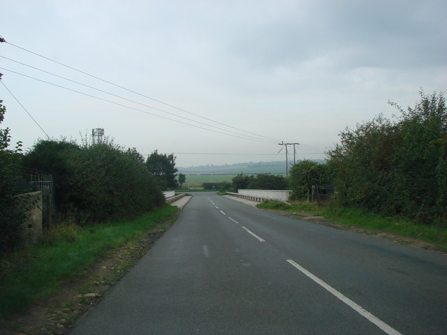 Longlands Lane Bridge, crossing the A1(M)